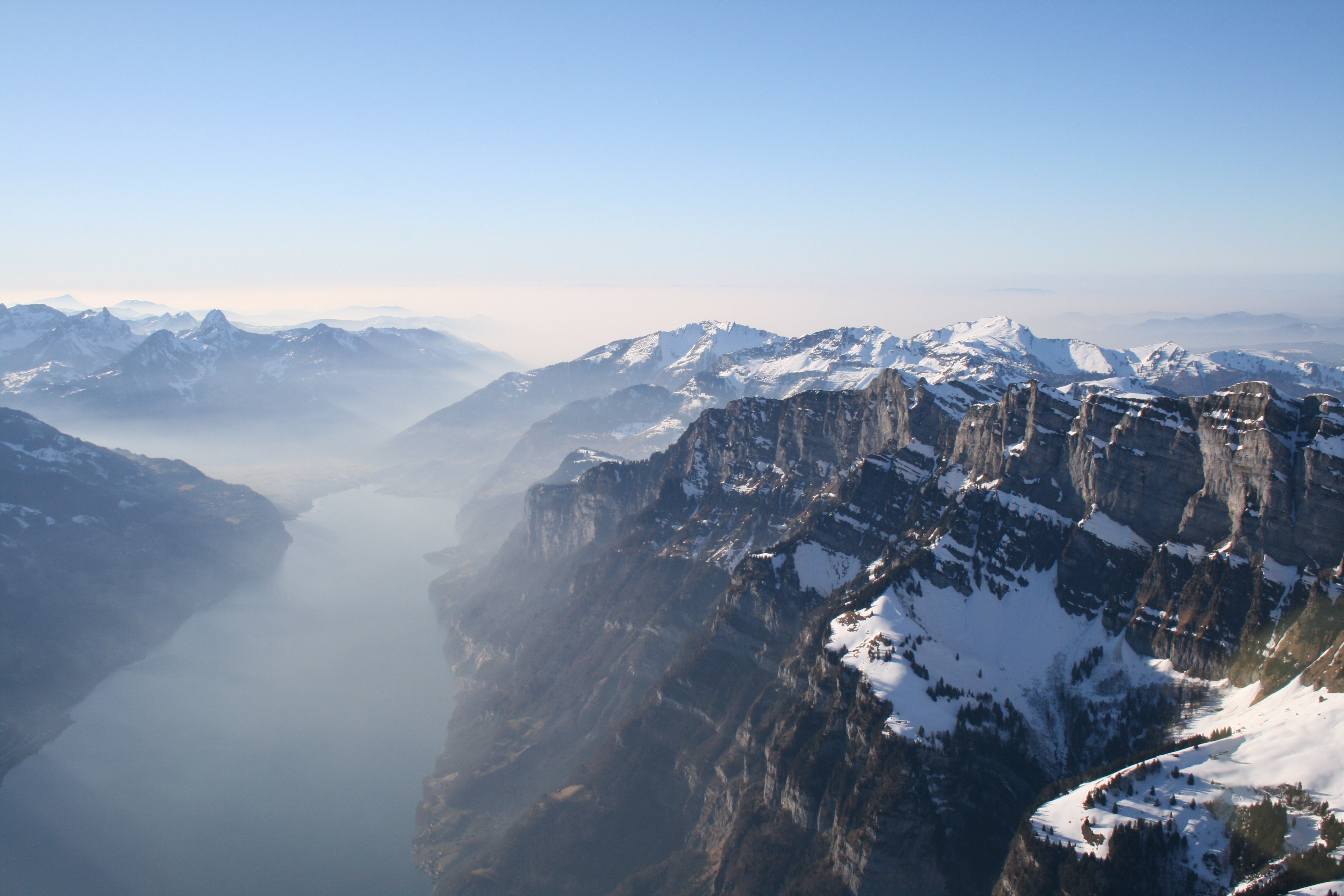 Walensee and Churfirsten in the evening sun